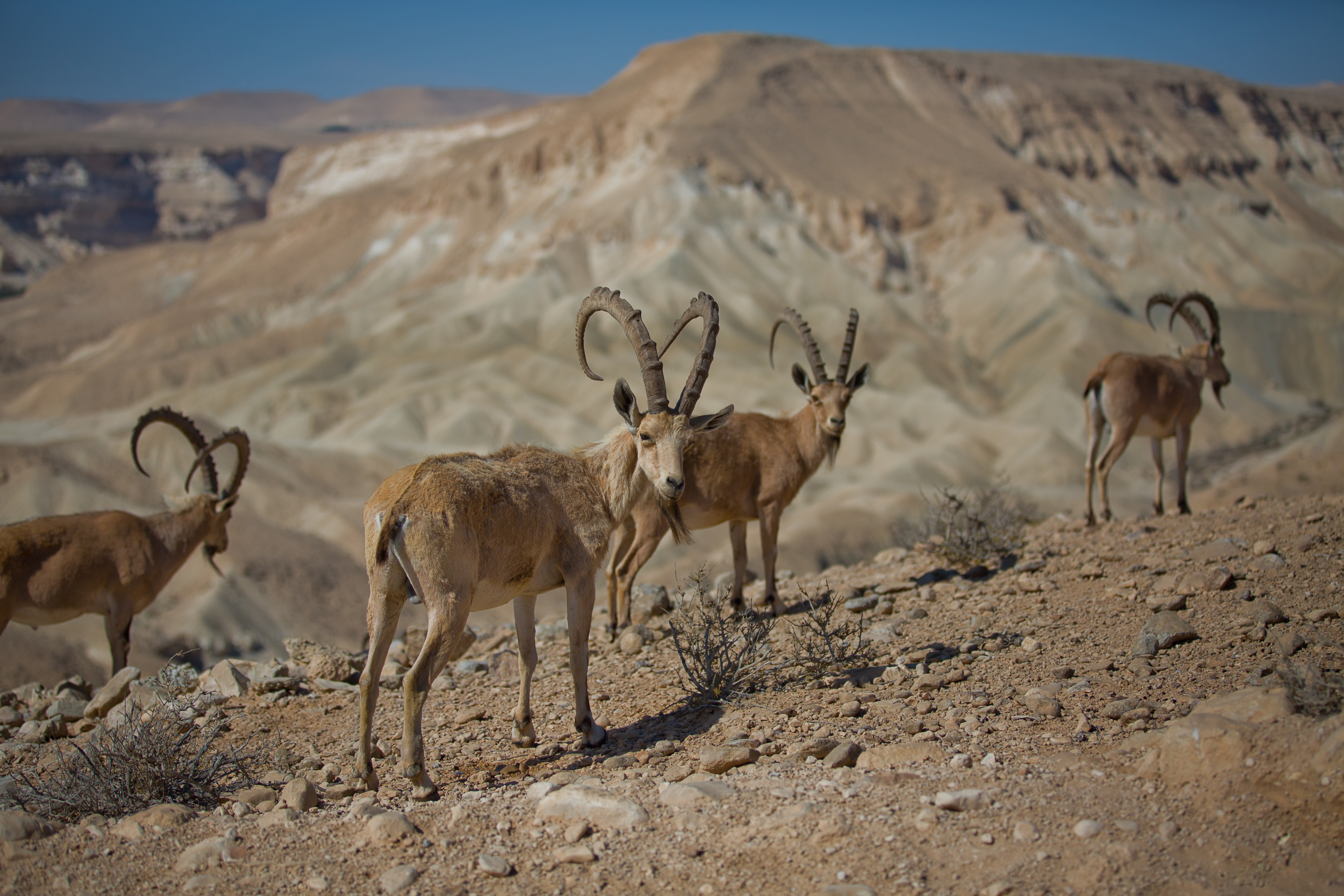 Negev area - near Kibbutz Sde Boker - mountain goats Photo taken by Dafna Tal for the Israeli Ministry of Tourism. Credit attribution requested